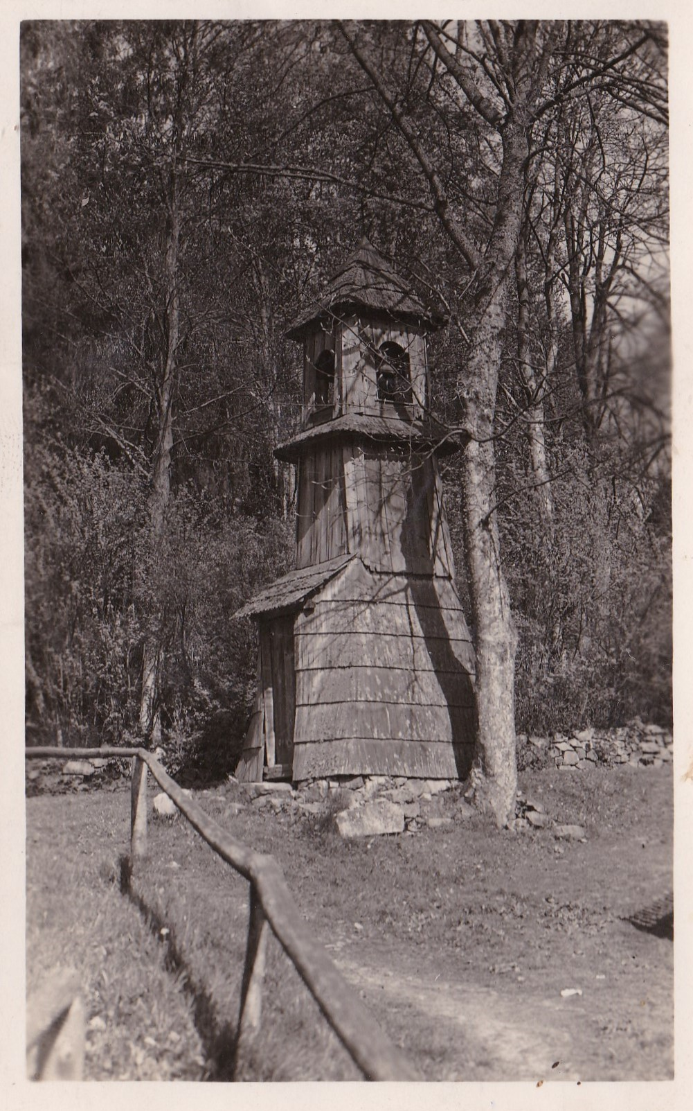 Bell tower in Litice